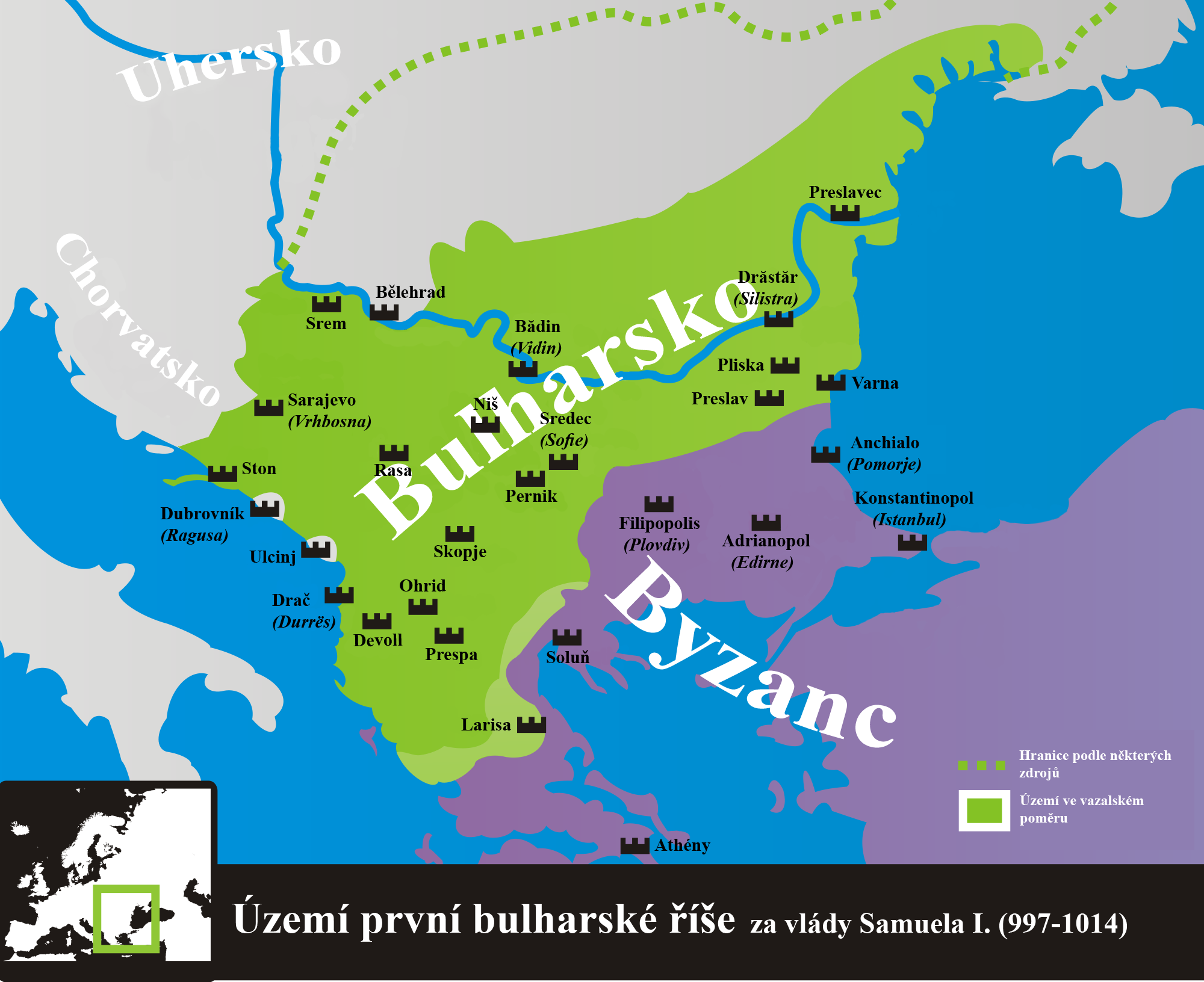 Map of the Bulgarian lands during the rule of Tsar Samuil (997-1014)